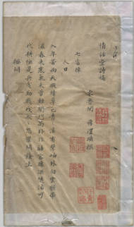 Poetry of Min Ding